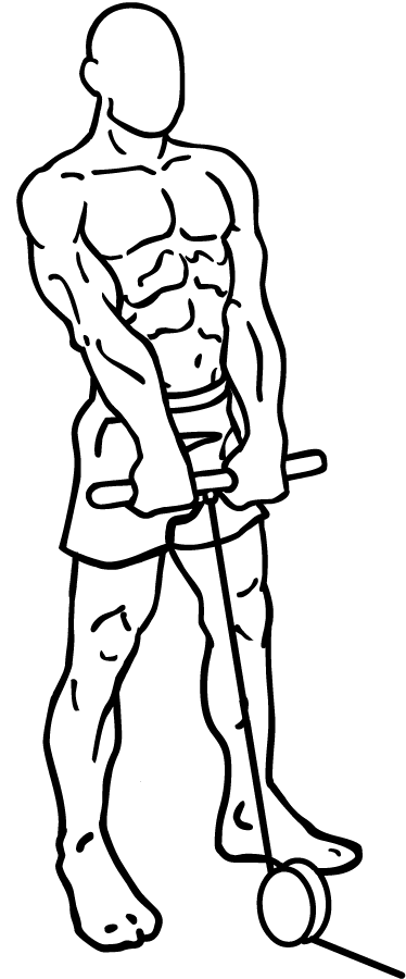 an exercise of traps